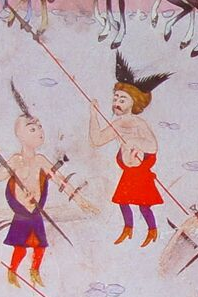 Detail of a miniature from Surname-i Hümayun (1582-1587), a Deli with the wings of an eagle at his cap.